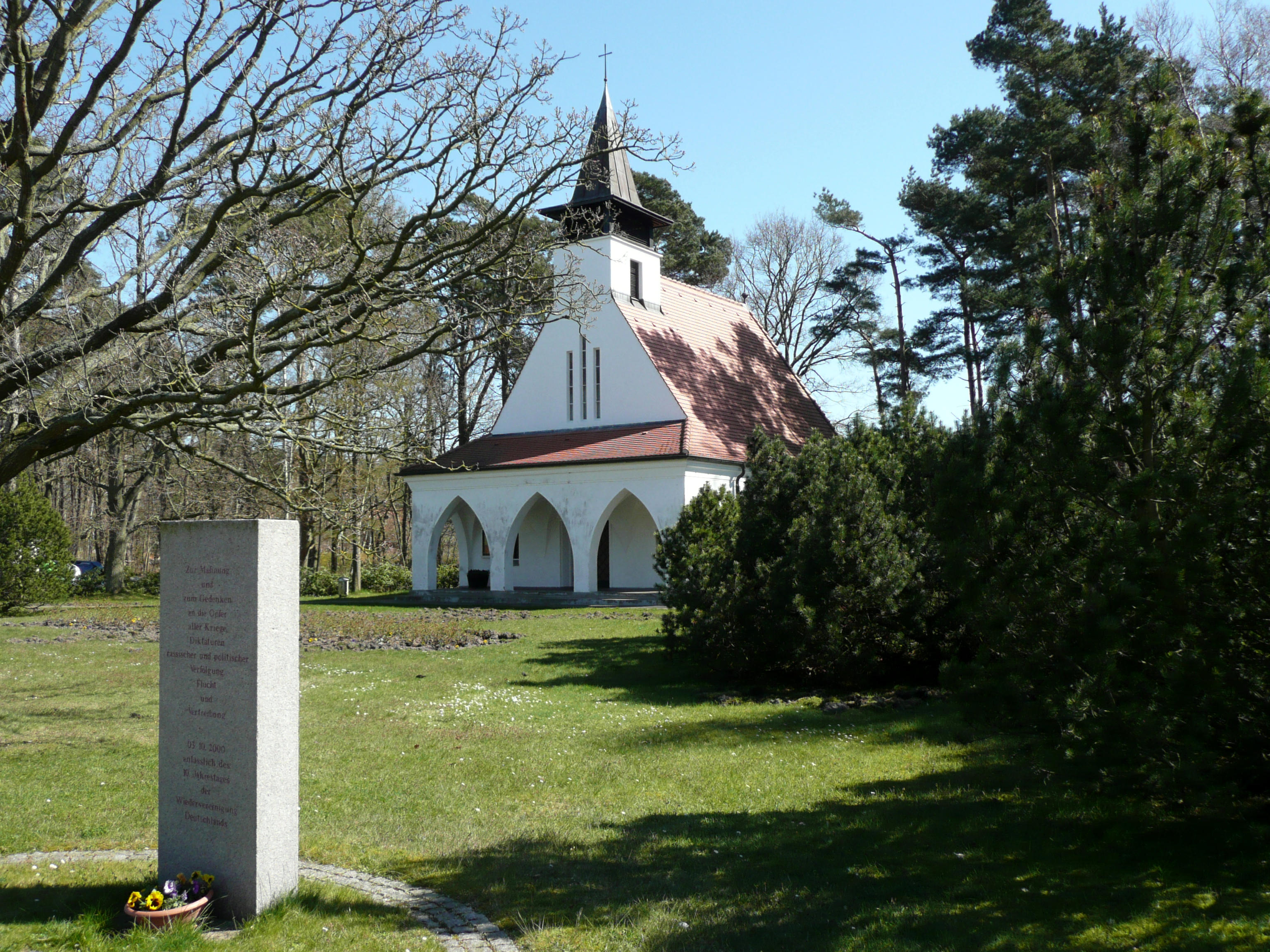 This image shows the evangelic church (built 1929/30) in Baabe.